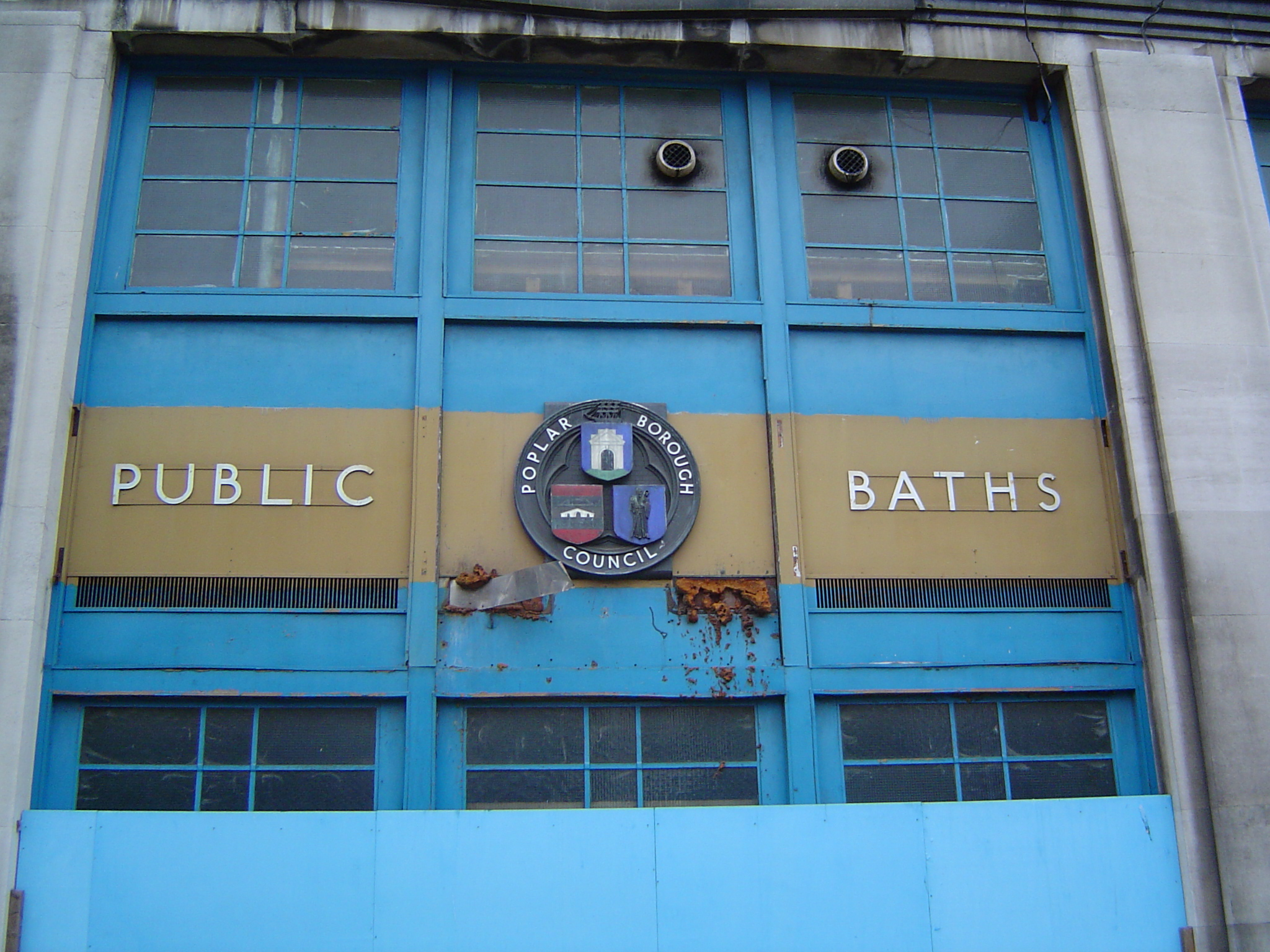 Poplar Baths, derelict building, London, UK (2005)